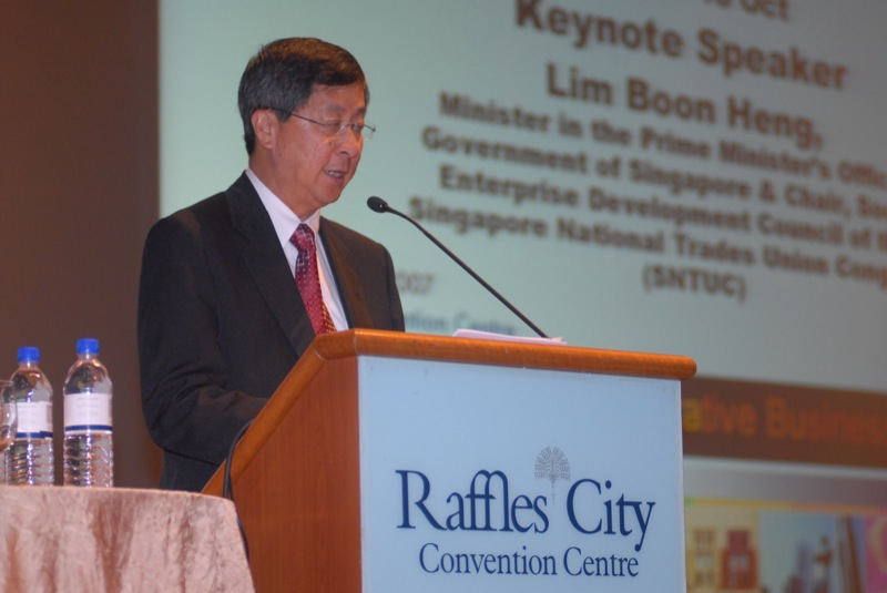 Lim Boon Heng (林文興, born 18 November 1947) is a Minister in the Prime Minister's Office of Singapore and the Chairman of Singapore's governing People's Action Party. He is also Deputy Chairman of the People's Association, and was formerly the Secretary-General of the National Trades Union Congress (NTUC).